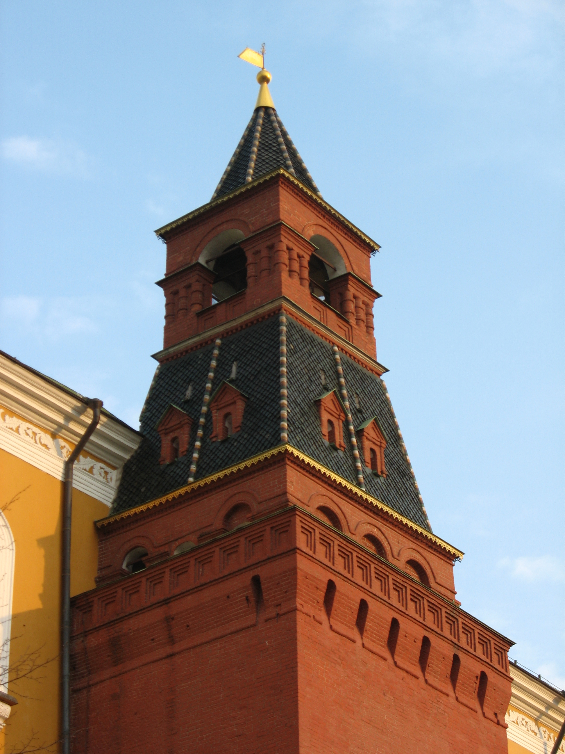 Middle Arsenalnaya tower of Moscow Kremlin